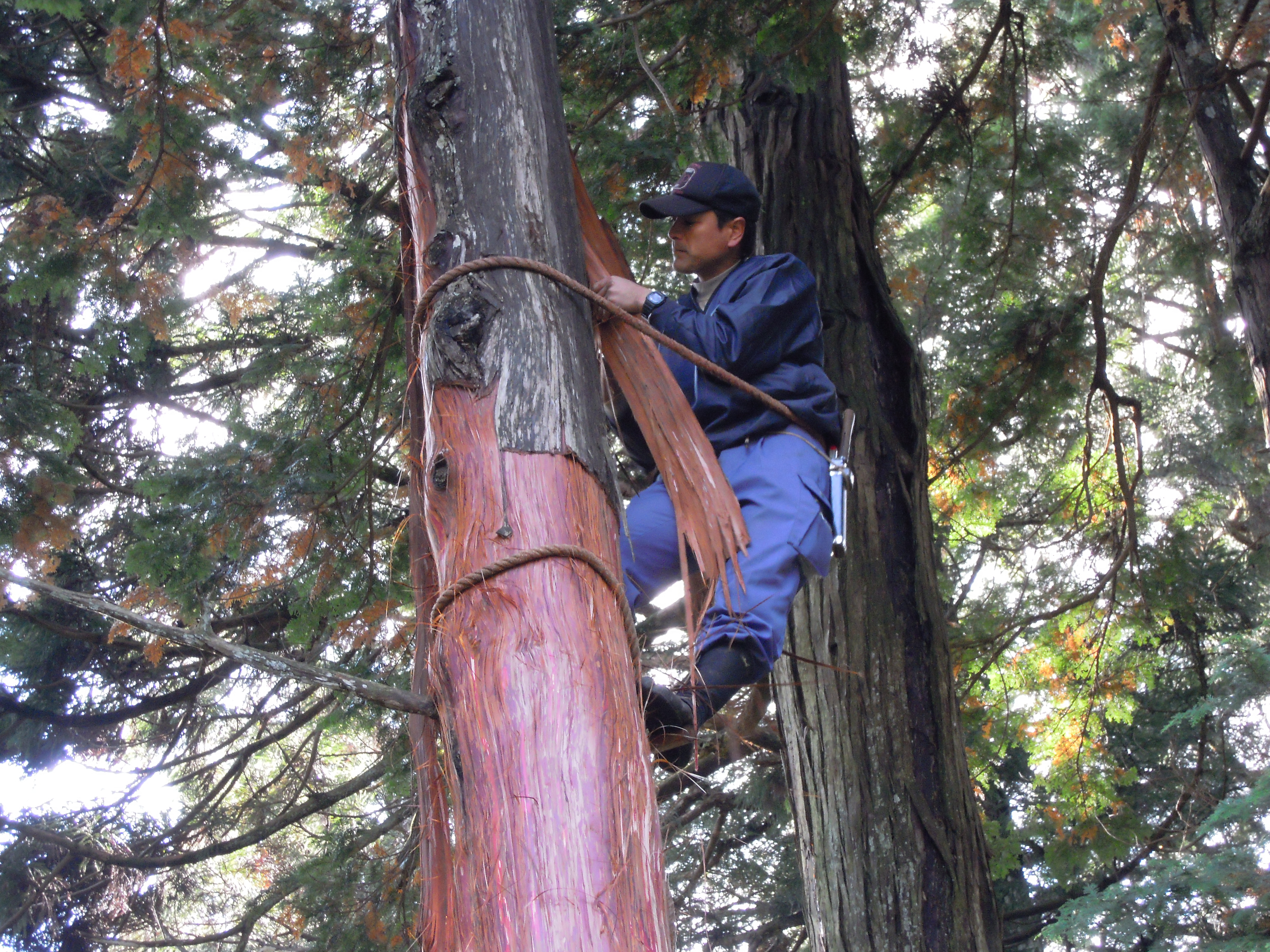 A craftsman peels off cypress bark for roofing.